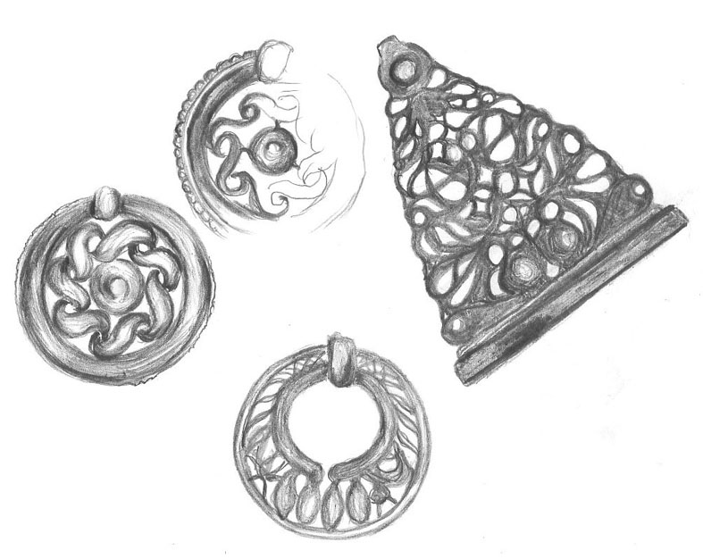 Iron belt buckles